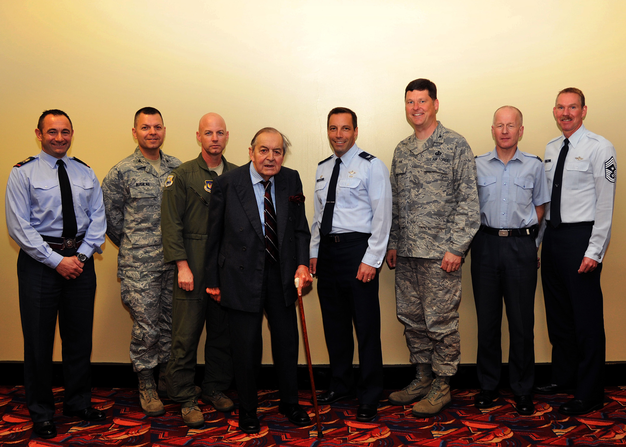 Marshal of the Royal Air Force Sir Michael Beetham, (center) poses with members of the USAF's 100 Air Refueling Wing leadership and (left) Station Warrant Officer Paul Edwards, RAF Marham, for a group photo at the Galaxy Club on 11 October 2011.